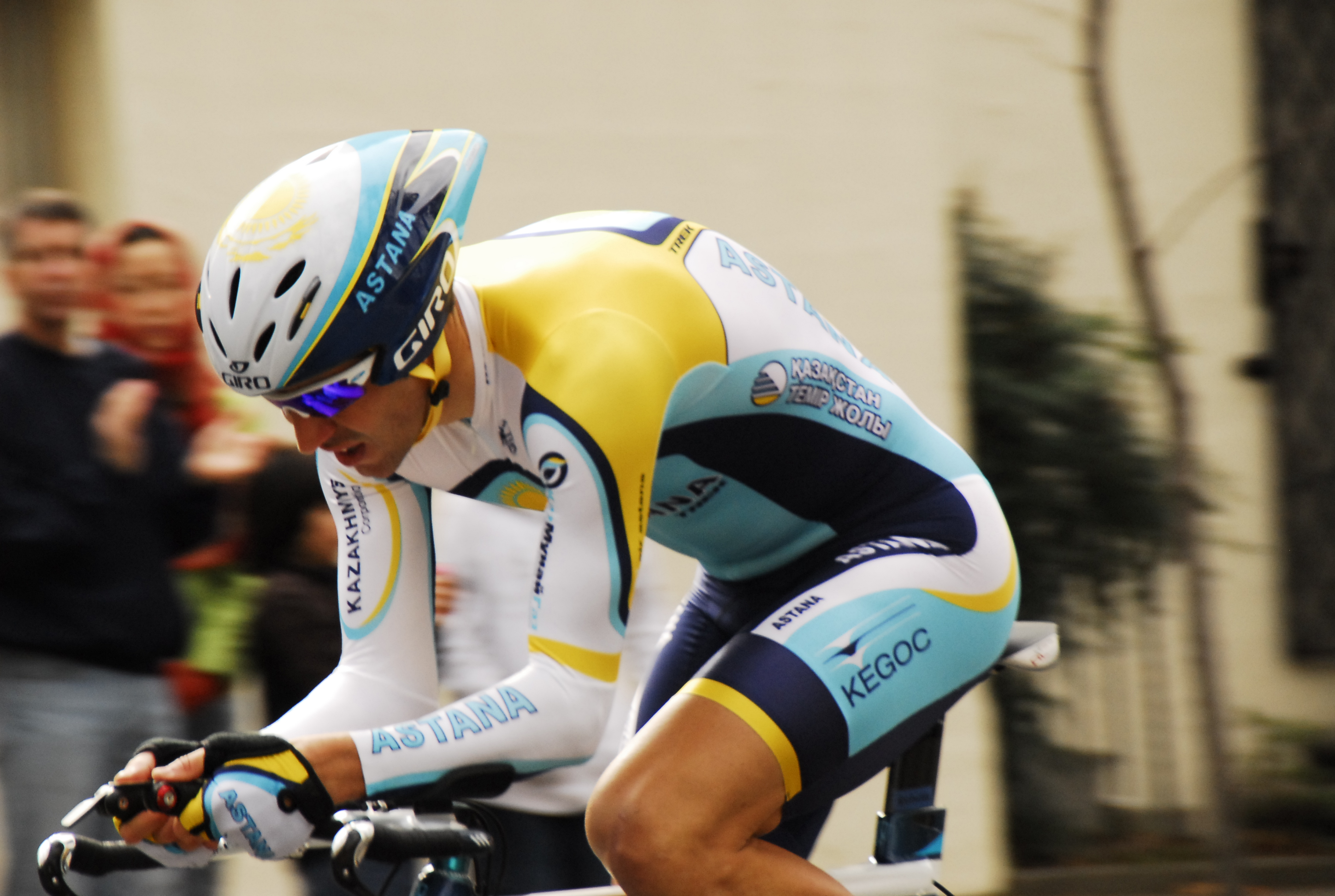 José Luis Rubiera, Tour of California